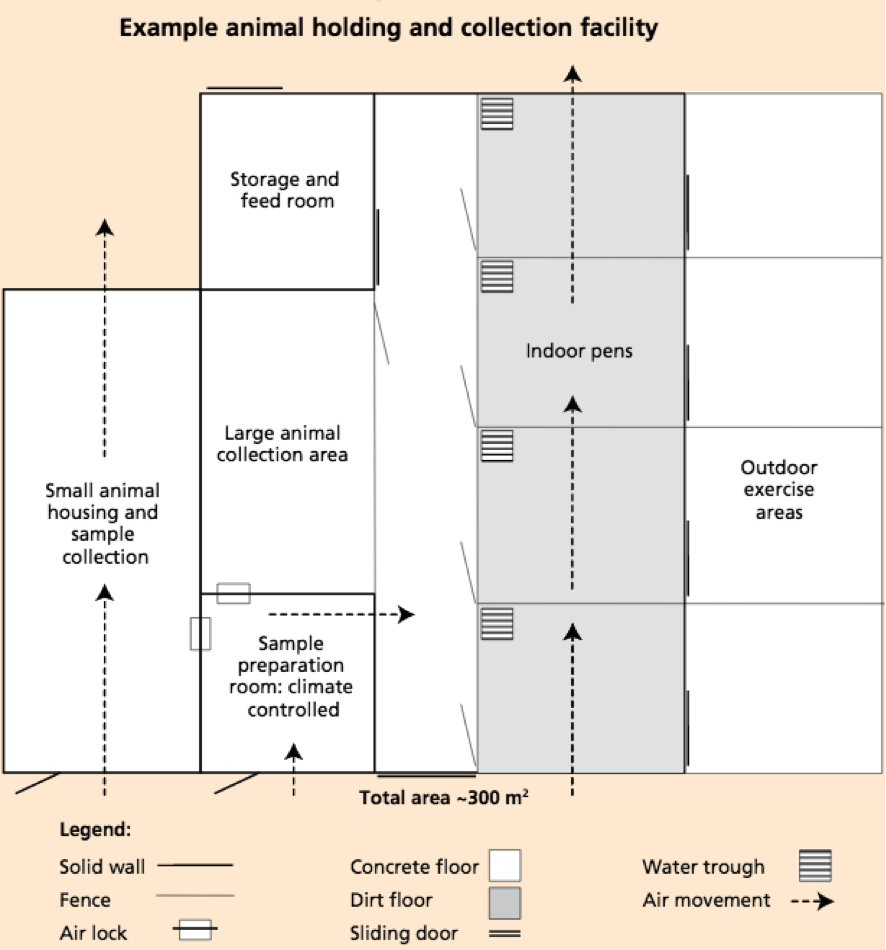 Diagram of animal holding and collection facility